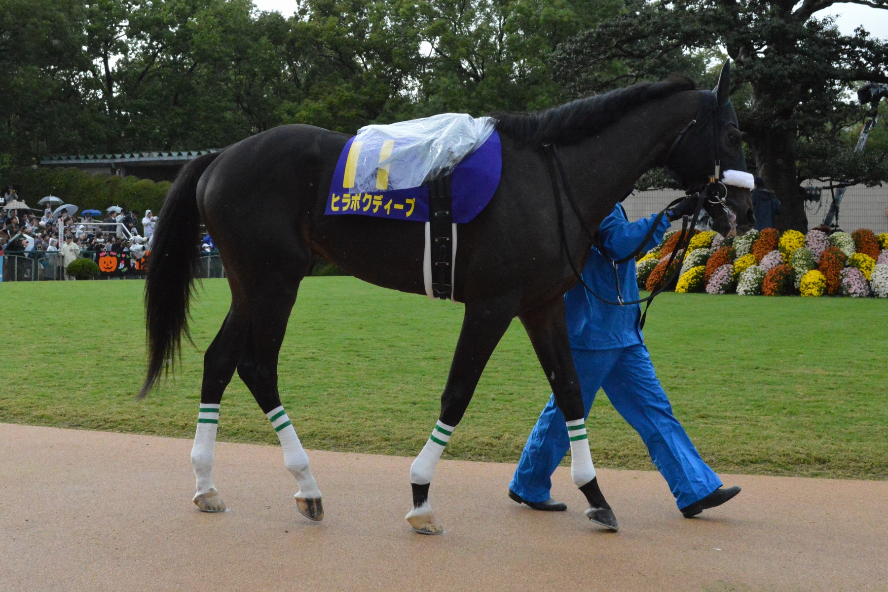 Japanese race horse Hiraboku Deep at Kyoto racecourse. Kyoto (JPN) 20 Oct 2013 Kikuka Sho (Japanese St.Leger) (Grade 1) (3yo Colts & Fillies) (Turf) 1m7f Firm RankHorse NameOddsAgeWgtTrainerJockey1stEpiphaneia (JPN)3/5FC39-0Katsuhiko SumiiYuichi Fukunaga2ndSatono Noblesse (JPN)185/10C39-0Yasutoshi IkeeYasunari Iwata3rdBande (IRE)105/10C39-0Yoshito YahagiDaisaku Matsuda4th - 16th/omission17thHiraboku Deep (JPN)82/1C39-0Sakae KuniedaMasayoshi Ebina